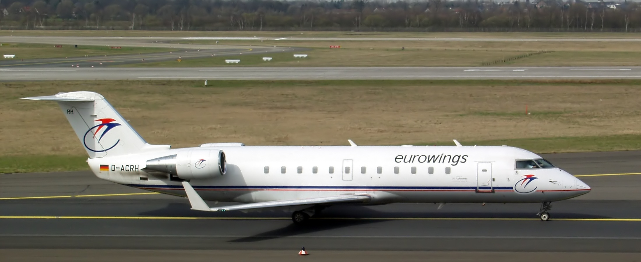 Bombardier CRJ 200ER (D-ACRH) of Eurowings at Düsseldorf